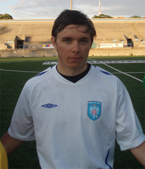 Evan Milward prior to the 2009 Canadian Soccer League season opener in 2009.